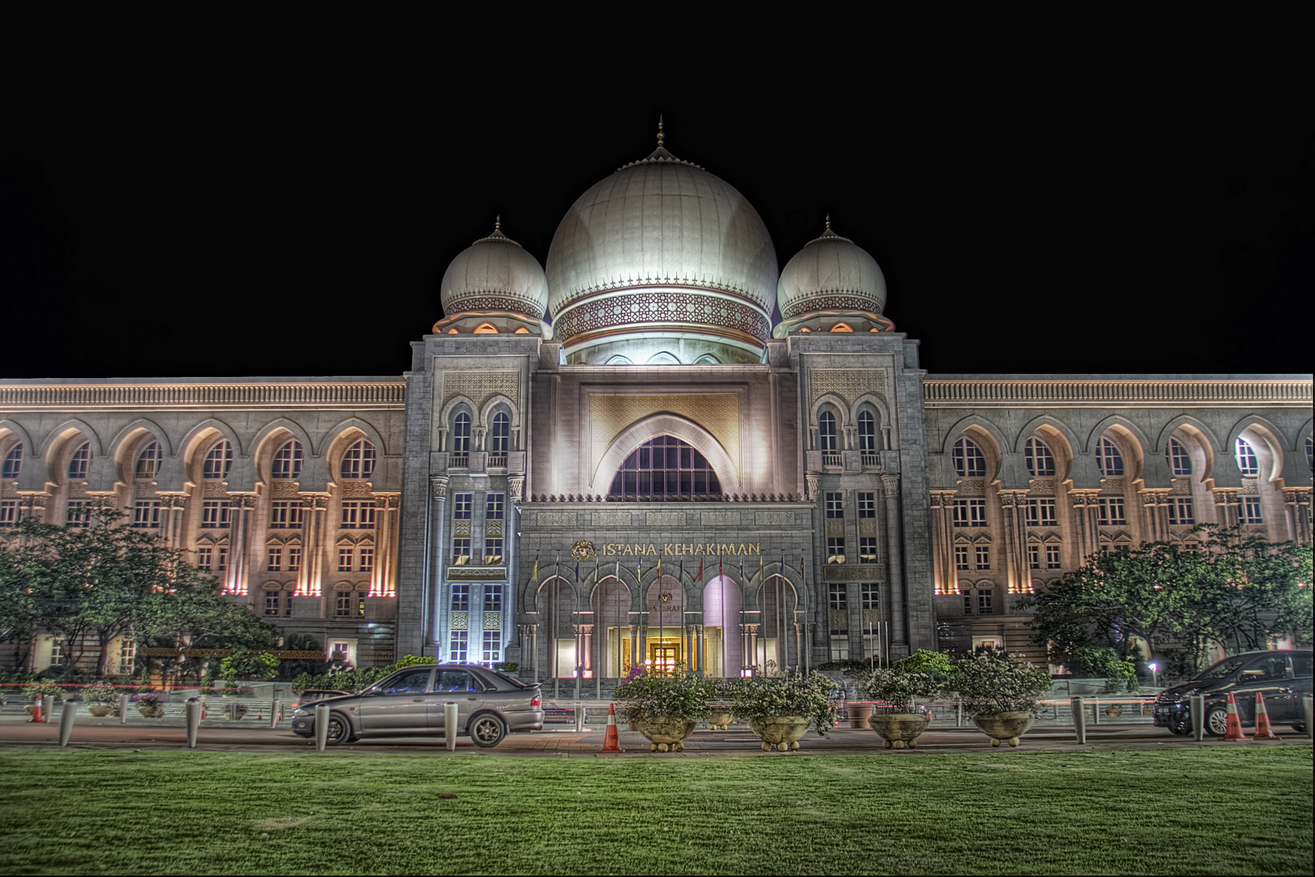 Night view of Palace of Justice, Malaysia